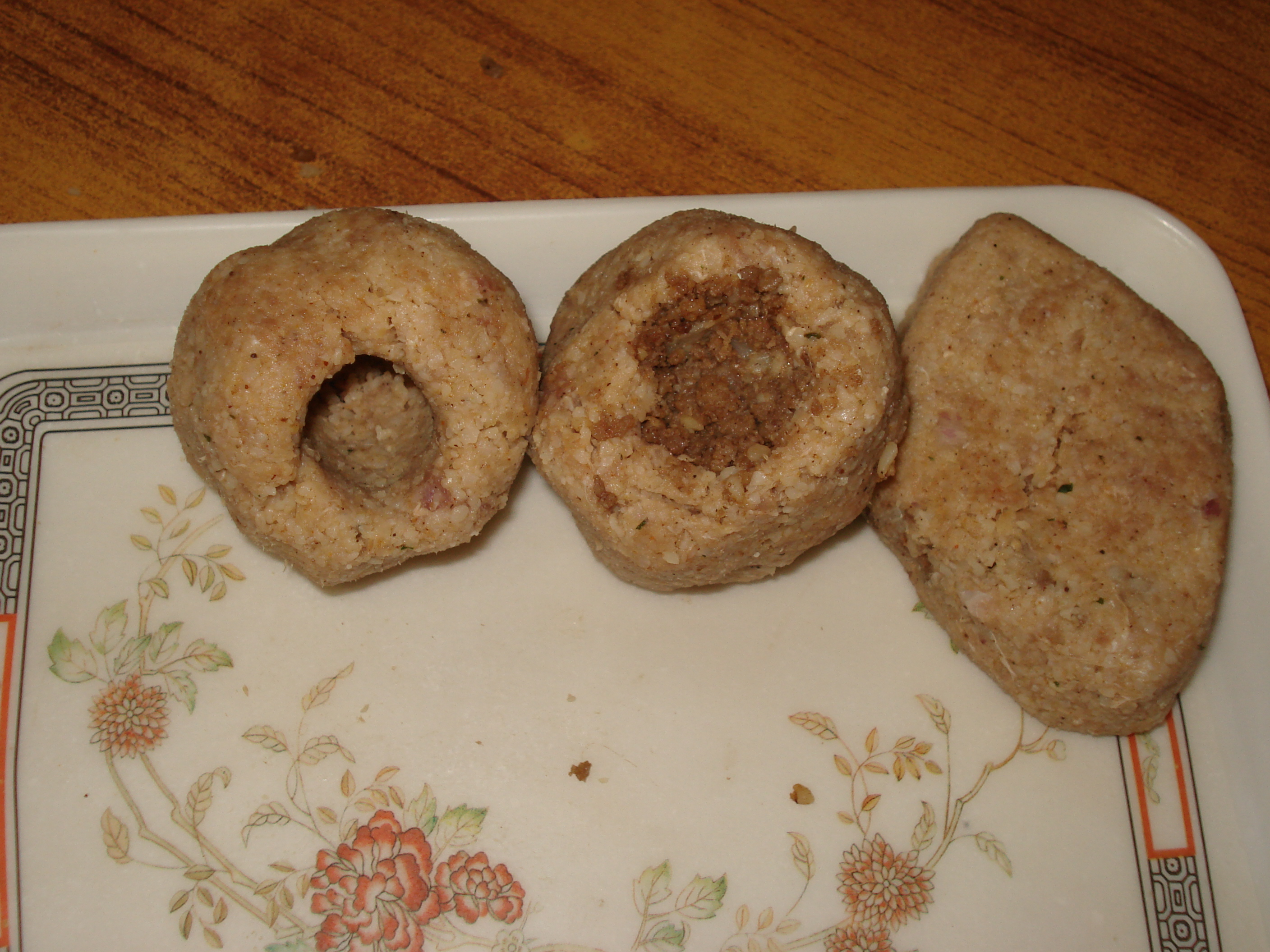 this picture ,How to prepare kibbe